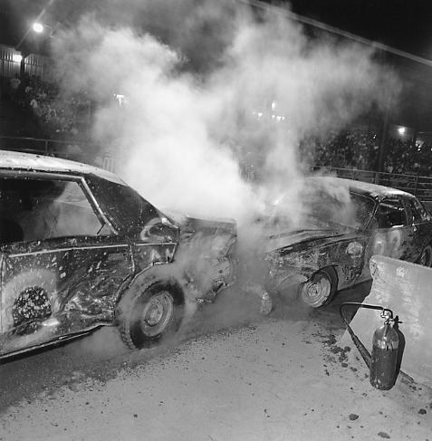 Sometimes the action unintentionally spills out of the "crash zone" boundaries. Note the fire extinguisher conveniently placed for easy access. Many derbies have local firefighting crews standing by in the arena. Thanks to their quick response, frequent small engine fires are usually extinguished immediately. (Photograph by Bill Lowenburg)